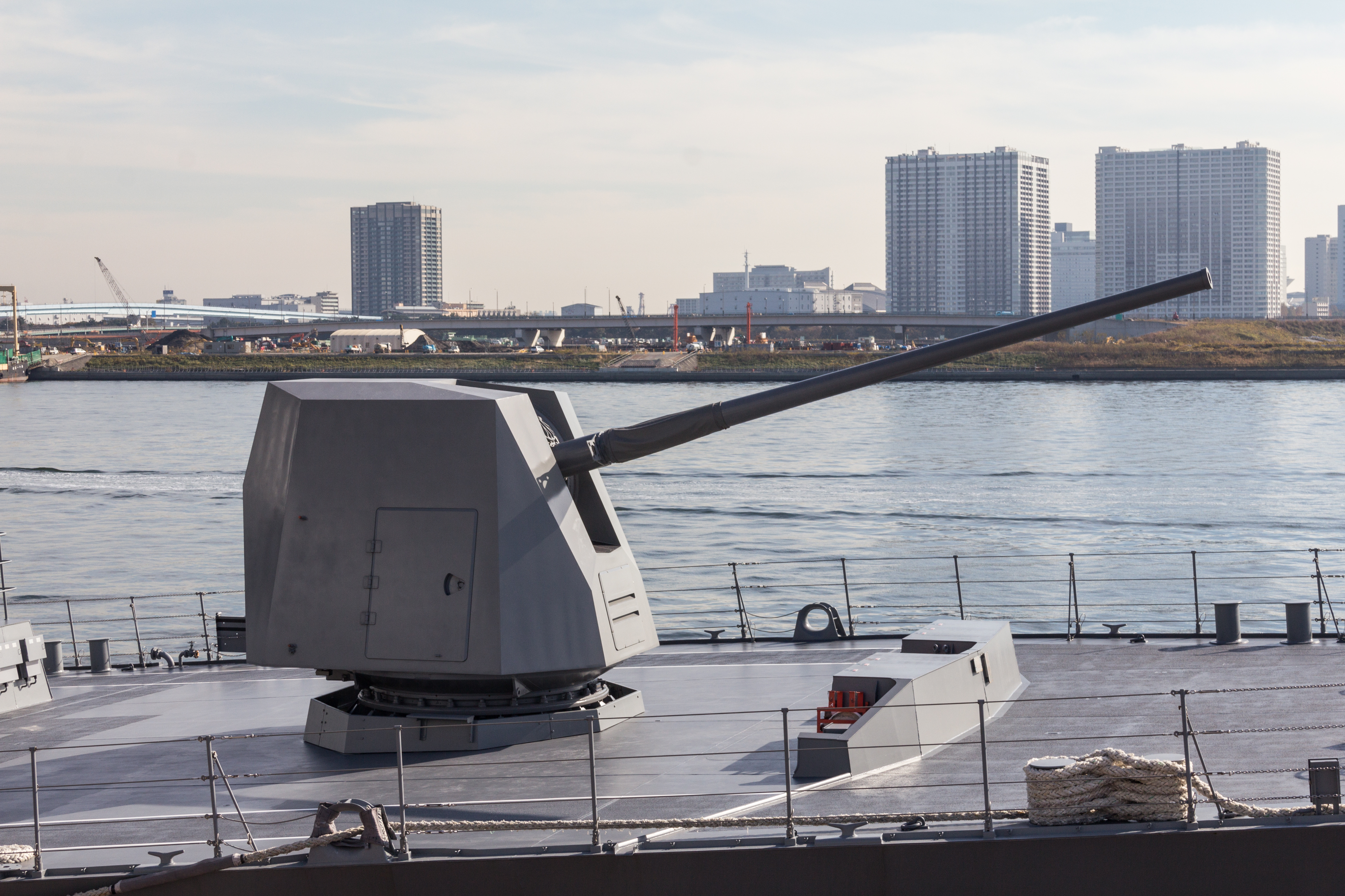 Mk45 5inch gun Mod4 on JDS DD-116 Teruzuki at Harumi-pier, Tokyo (2013 Dec 1) Canon EOS 60D